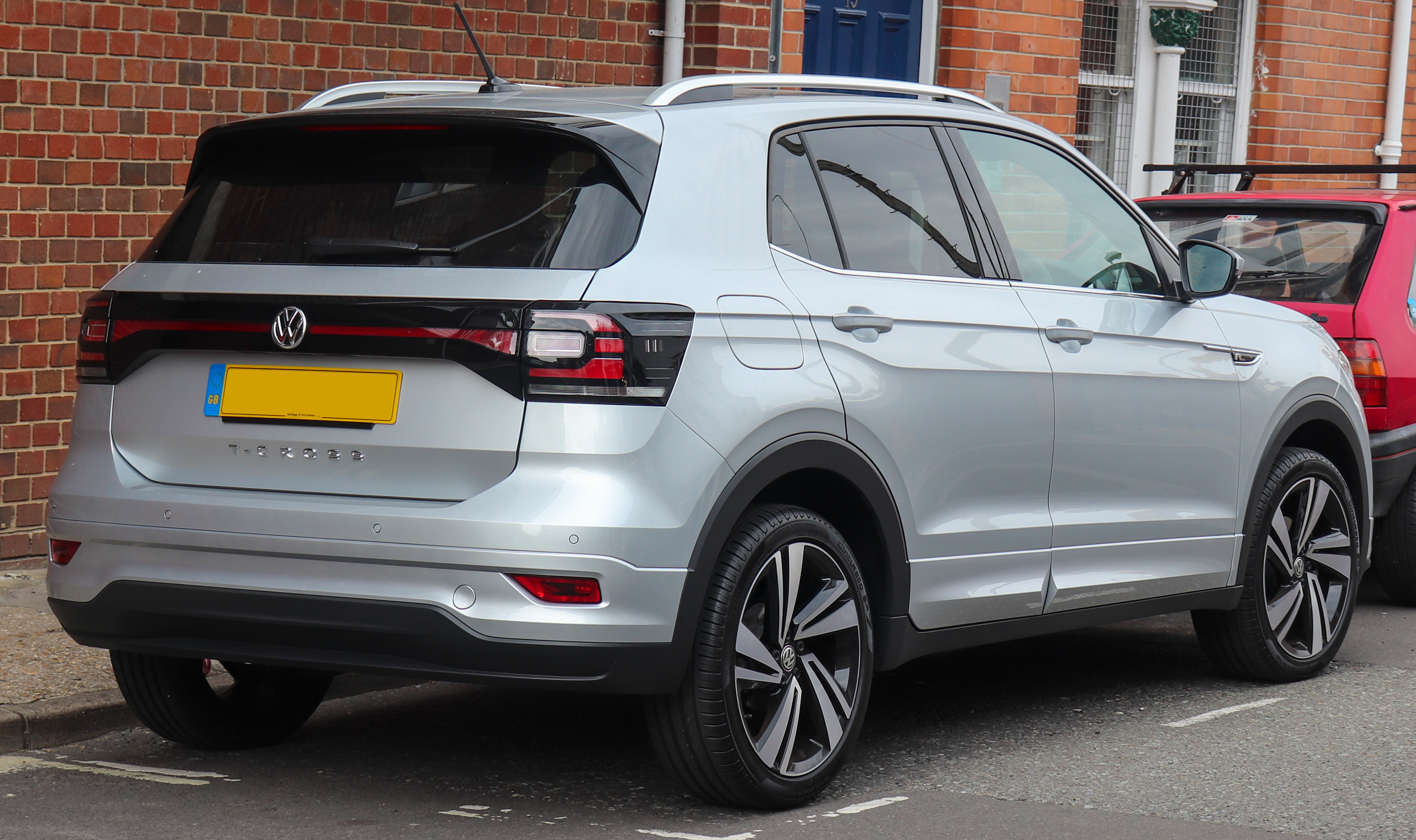 2019 Volkswagen T-Cross R-Line TSi 1.0 Rear Taken in Weymouth